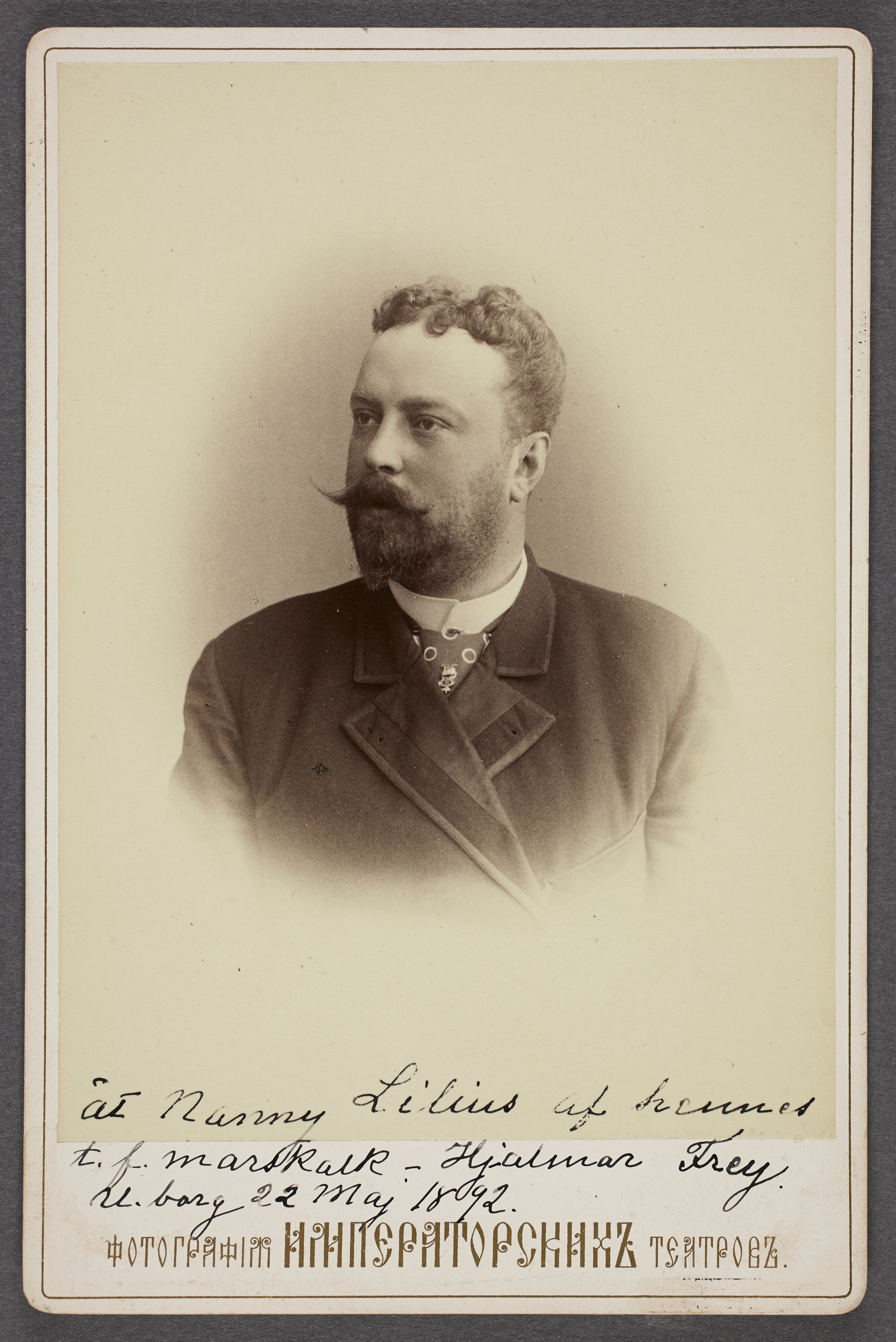 The Finnish opera singer Hjalmar Frey (1856-1913) in Saint Petersburg